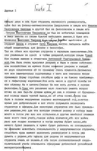 Original Scan fom the first page of the Manuscipt of "Beginn eines Erdbebens"